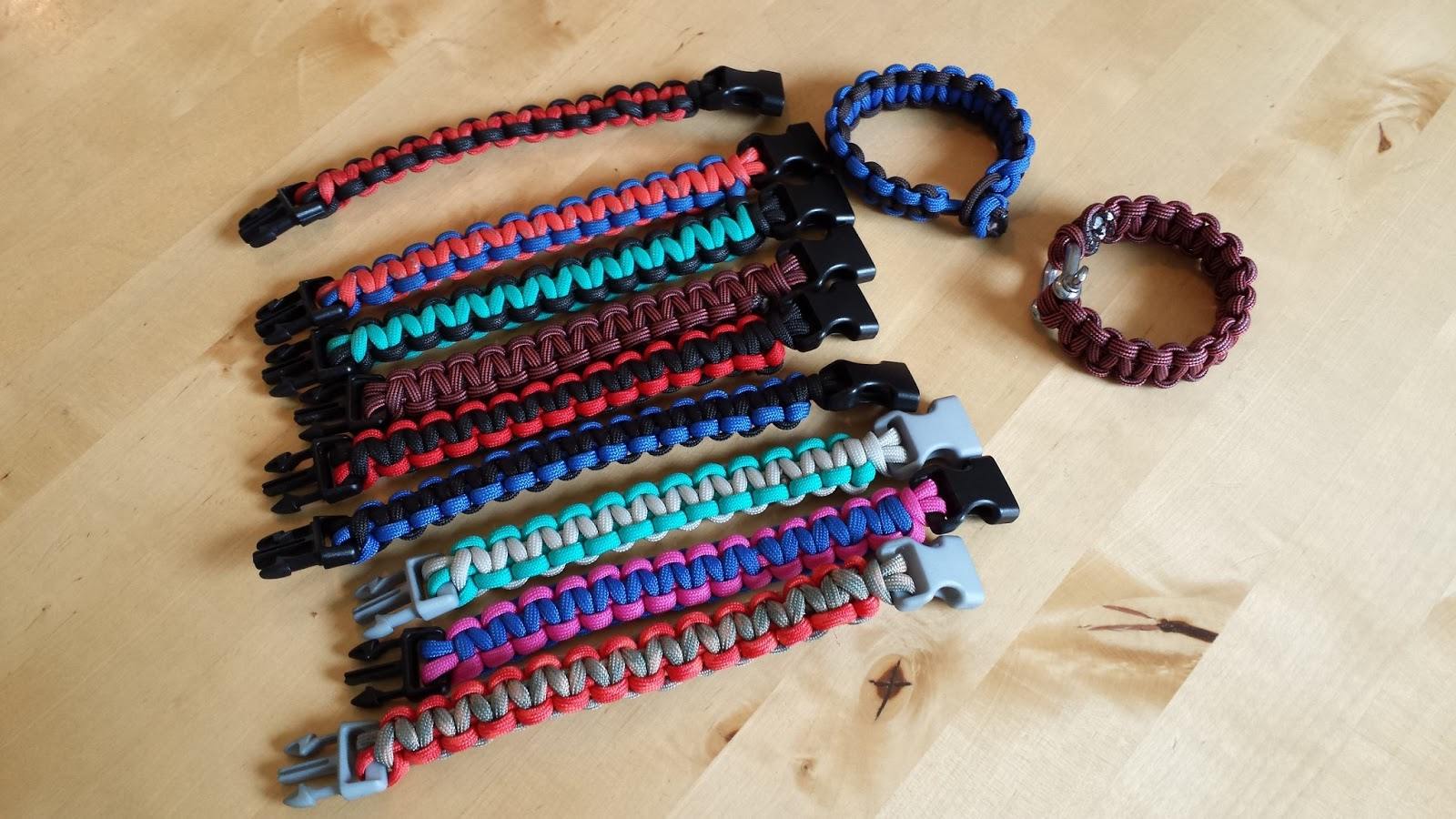 Paracord bracelets using the Cobra knot( also known as Solomon Bar or Portuguese Sinnet)